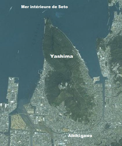 Aerial view of Yashima district in Takamatsu City (Kagawa prefecture).